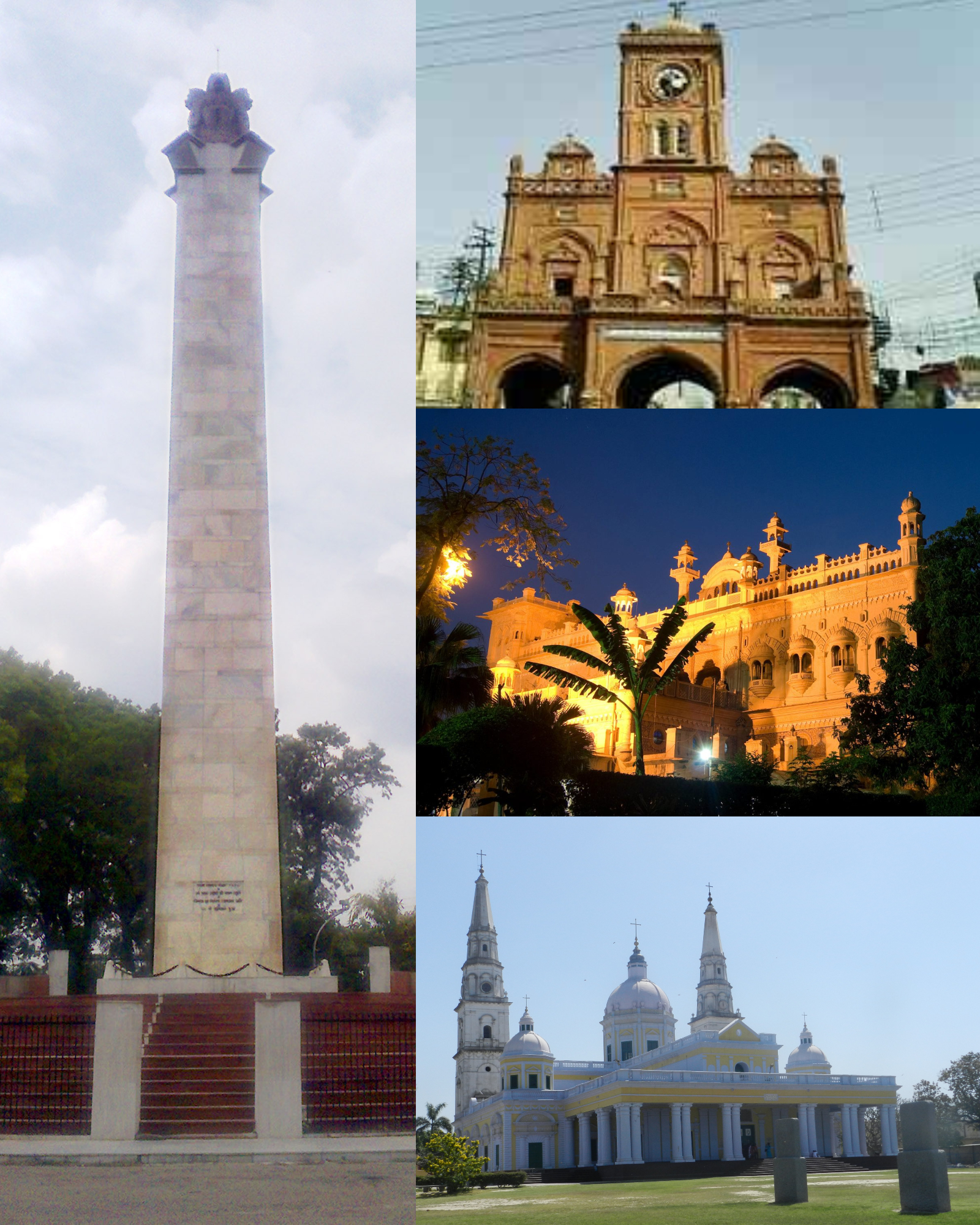 This file is a montage made from existing files available on Commons. The files used areː File:Shaheed Smarak Meerut.jpg by Siddhartha Ghai File:CLOCK TOWE MEERUT.jpg by Emransaifi File:Mustafa Castle -- night shot.jpg by MMKhan22 File:Side Profile of Basilica.jpg by Jupitus Smart